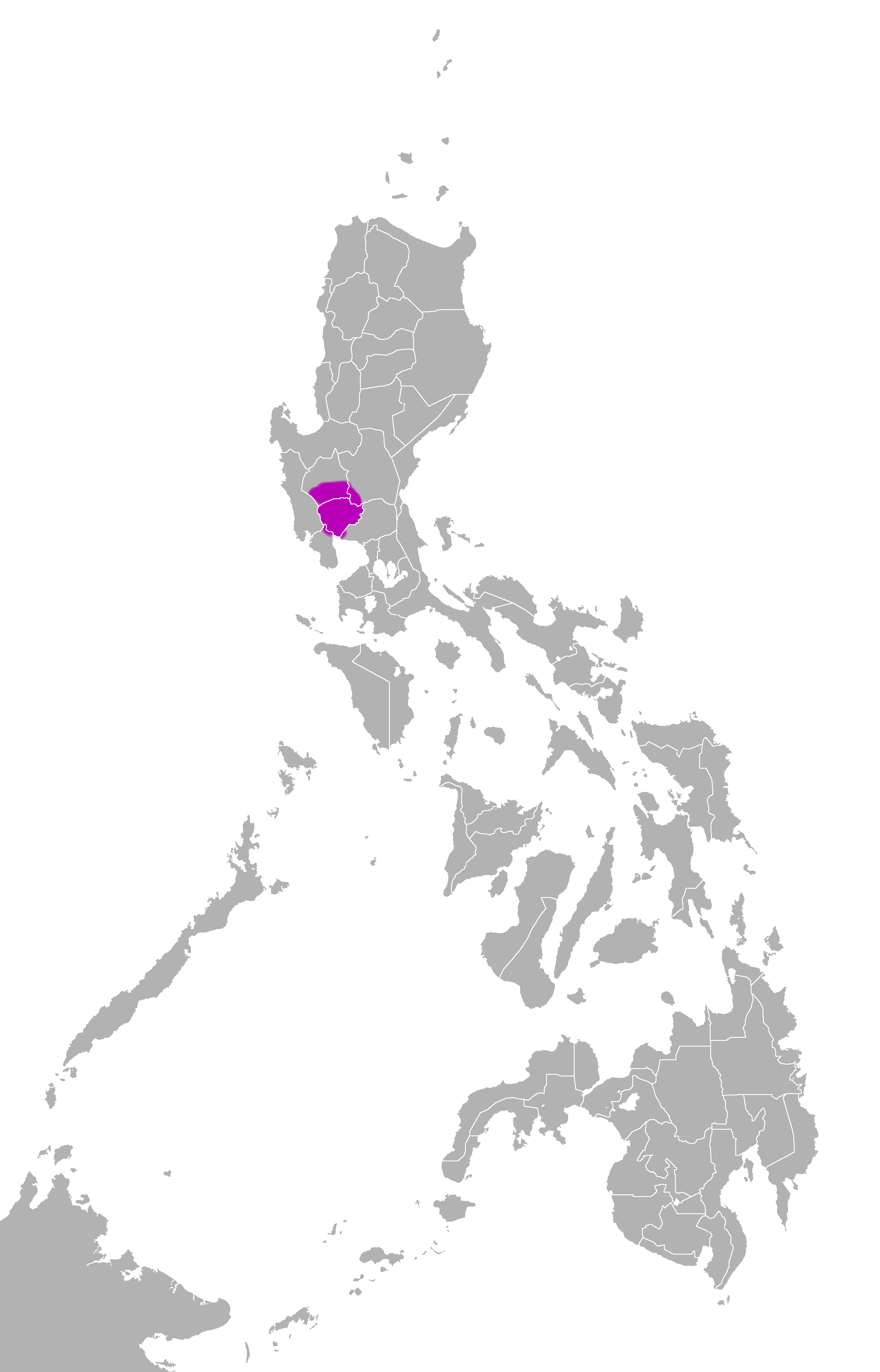 Kapampangan speaking regions